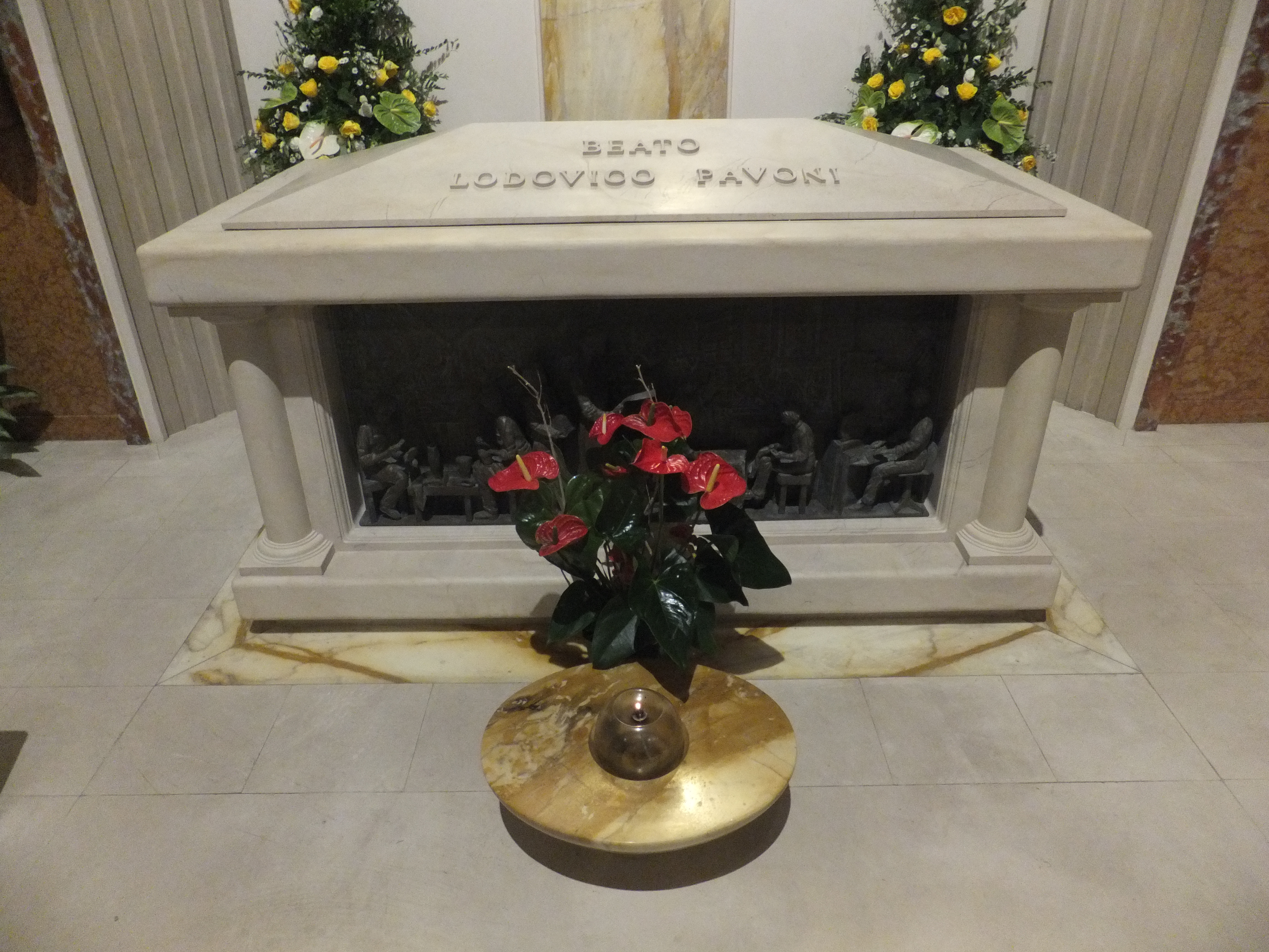 Brescia - Church of the Immaculate (called "la Pavoniana") - Tomb of Lodovico Pavoni